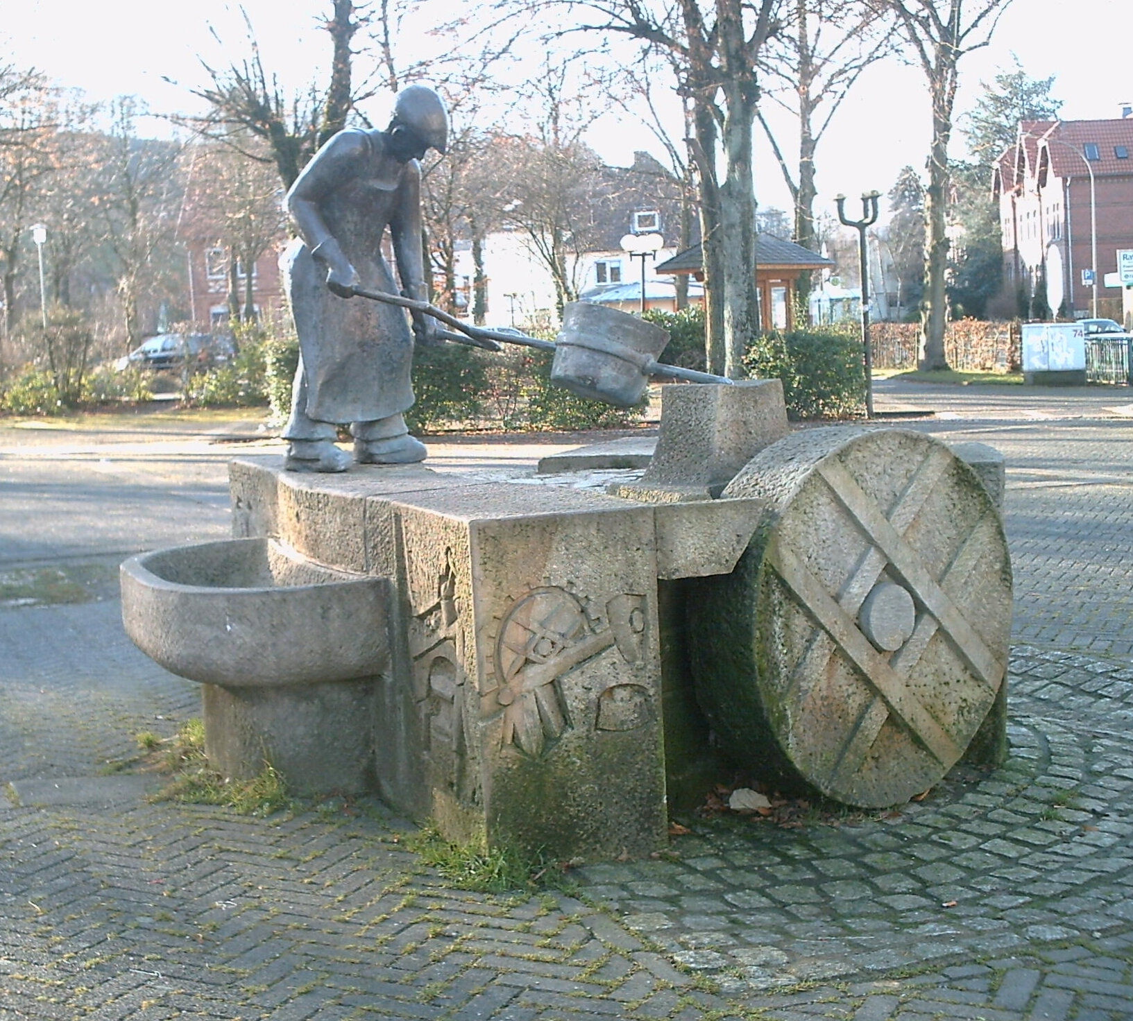 Fountain on the market place in Altenbeken, Germany. (A craftsman in a iron foundry at work)